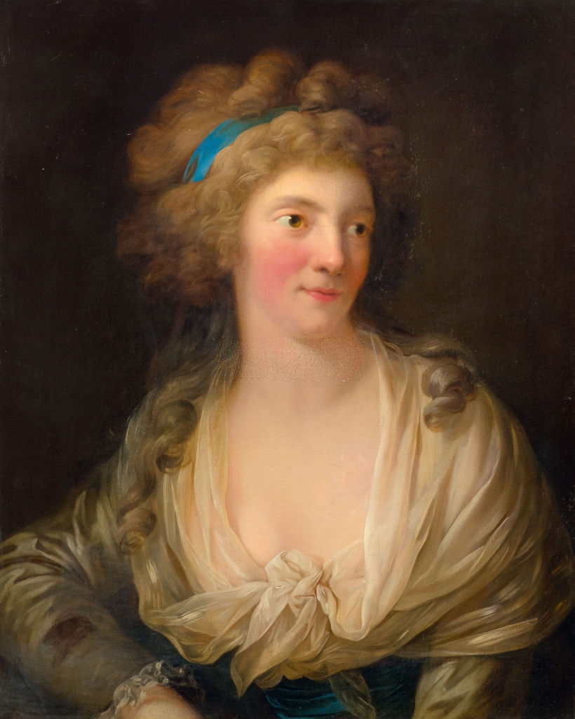 Princess Frederica Charlotte of Prussia, Duchess of York and Albany (1767-1820)